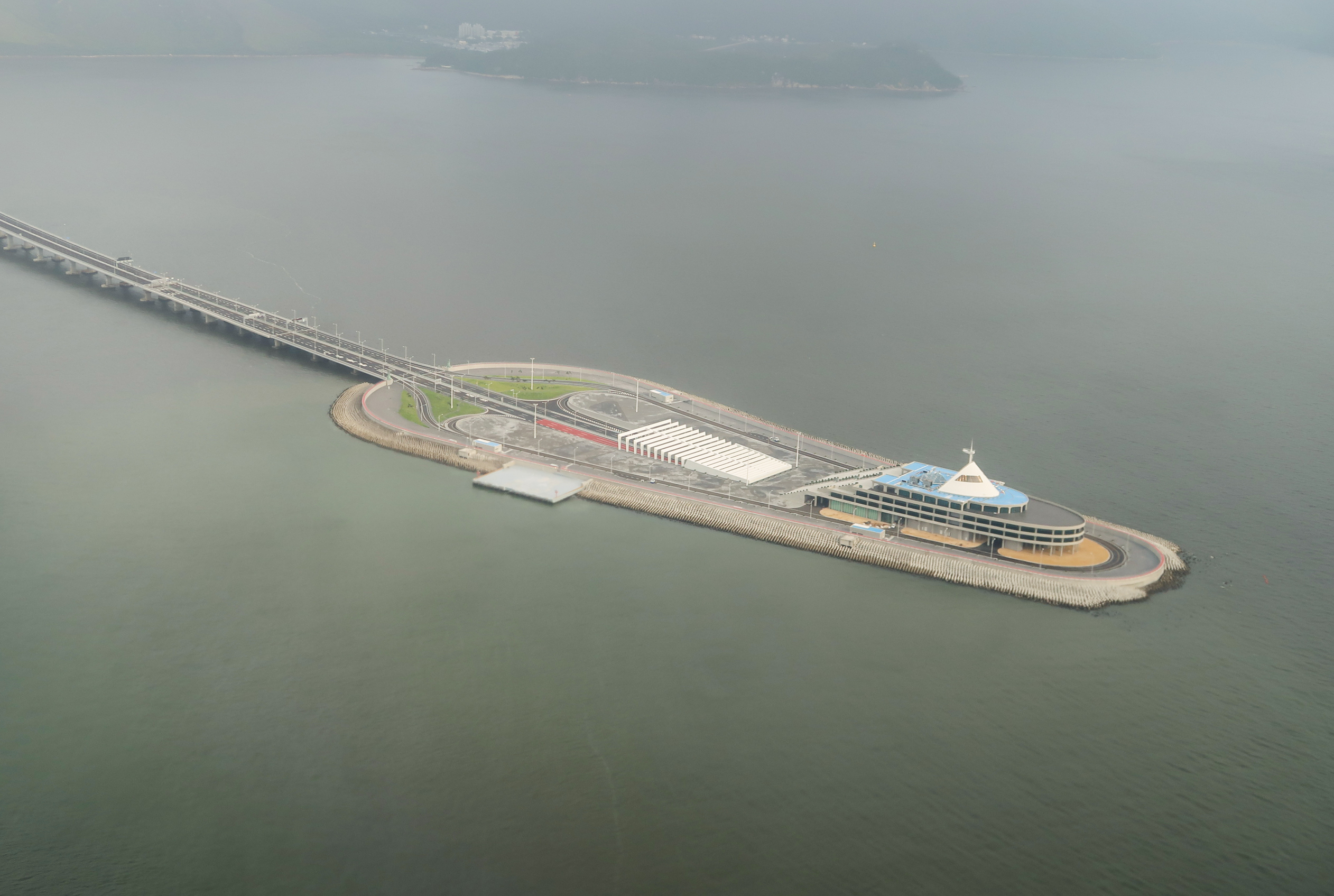 Artificial island of HK-Zhuhai-MO Bridge